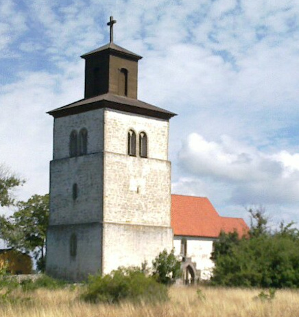 Church of Fide, Gotland, SE